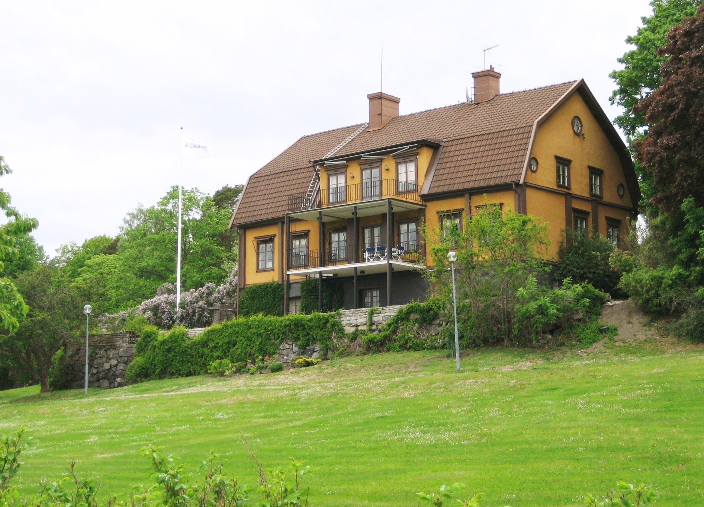 Hamra gård in Tumba, south of Stockholm, Sweden. The farm is a test farm for DeLaval milking equipment.